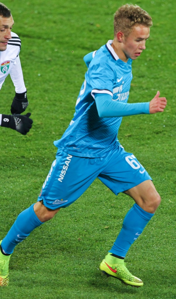 28.10.15. Россия, Санкт-Петербург, стадион «Петровский». Кубок России, 1/8 финала, «Зенит» — «Тосно». На снимке в синей форме: Никита Андреев, нападающий ФК «Зенит».